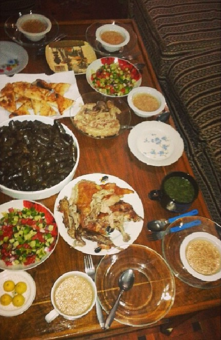 Some food from our first day in Ramdan 2014 in Egypt This is an image of food from Egypt